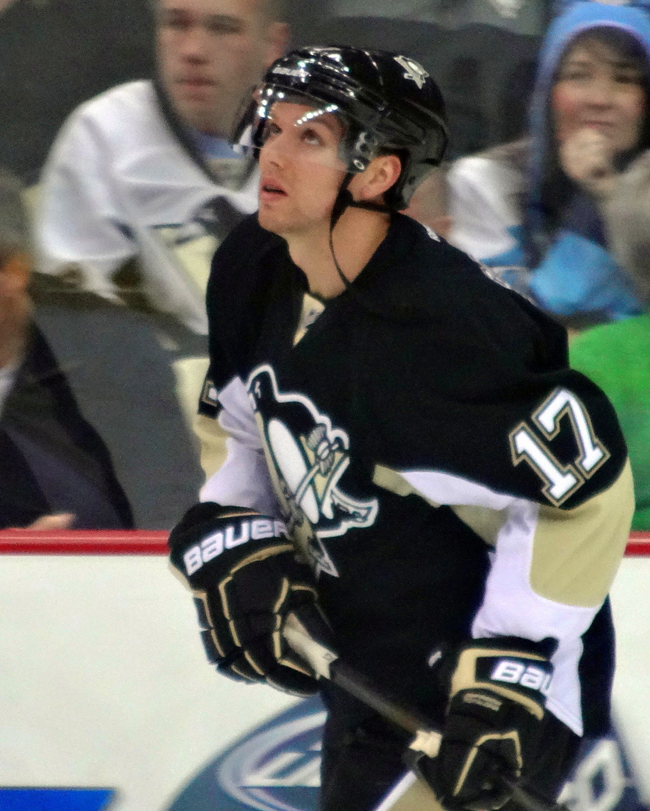 Forward Zach Boychuk skates in his first game for the Pittsburgh Penguins since being claimed off waivers from the Carolina Hurricanes, February 2, 2013 against the New Jersey Devils at Consol Energy Center in Pittsburgh, PA.